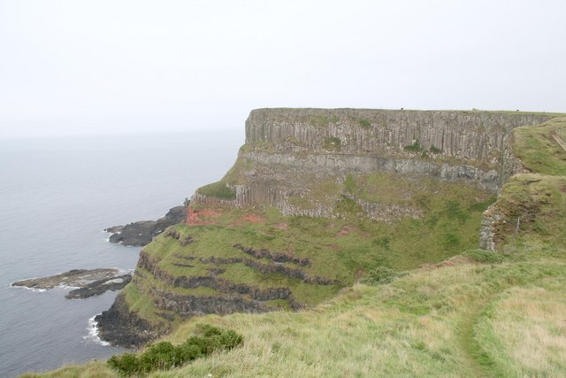 Benbane Head. Overlooking Port na Tober. The geological layers are clearly visible with two huge layers of basalt in column form.